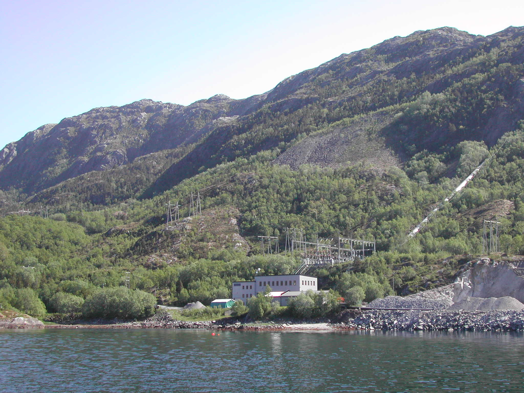 Grytåga power plant, Nordland, Norway